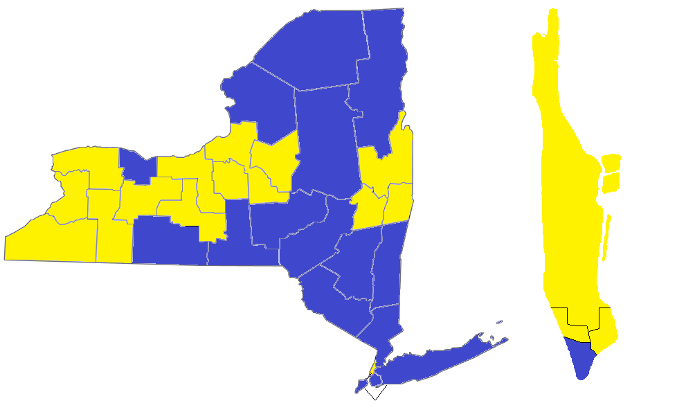 Partisan composition of the New York State Senate by district for the state (left) and New York City (right) in 1852. Yellow is Whig, Blue is Democratic.